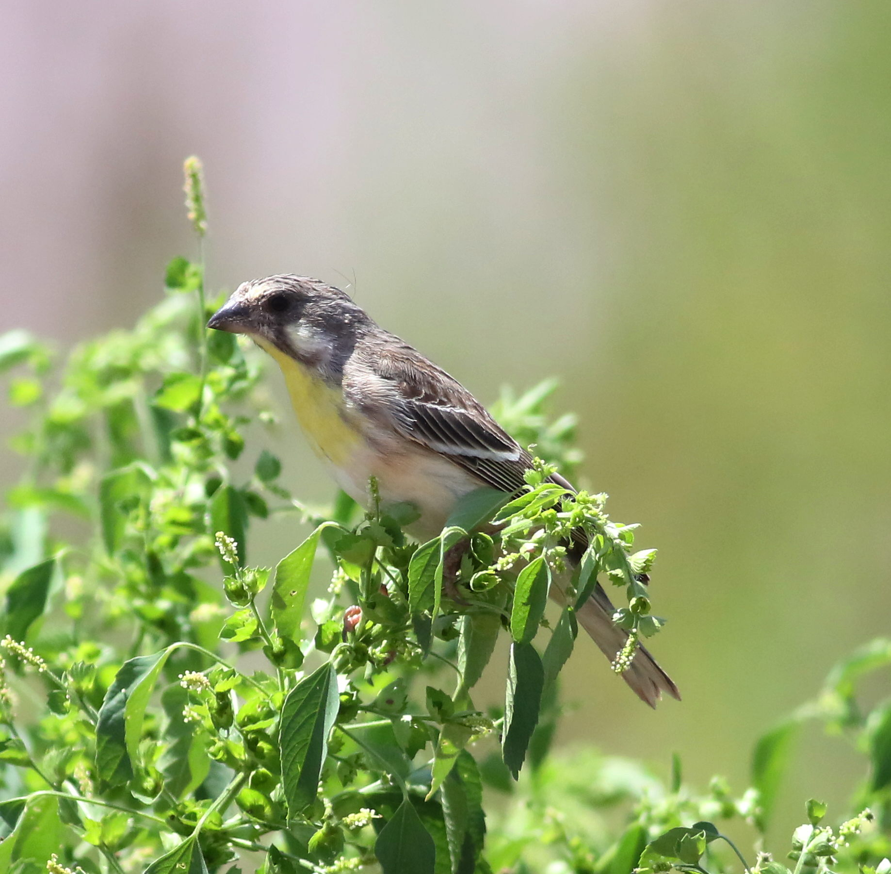 Lemon-breasted canary, Crithagra citrinipectus, near Pafuri in Kruger National Park, South Africa